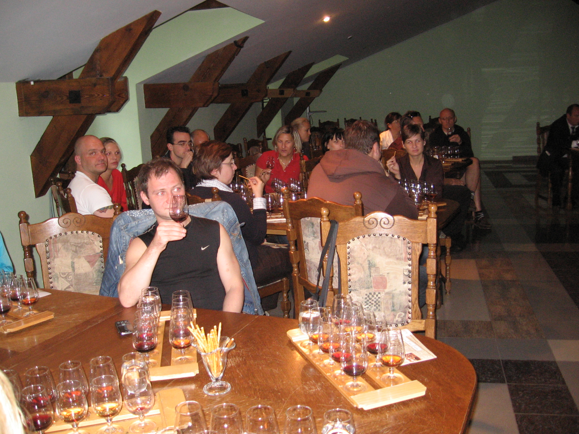 Wine degustation at Massandra winery, Crimea